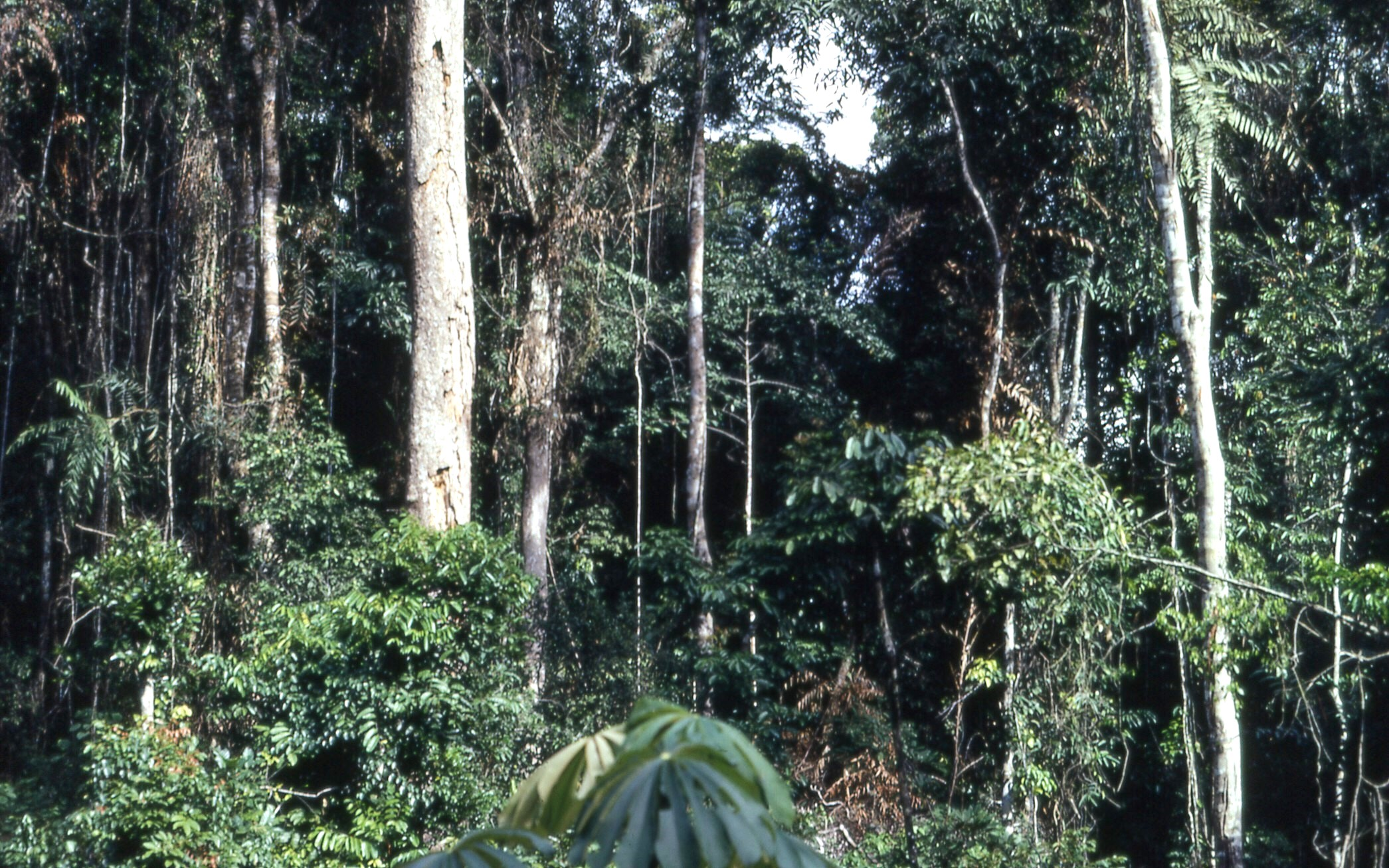 Photo taken in May, 1968